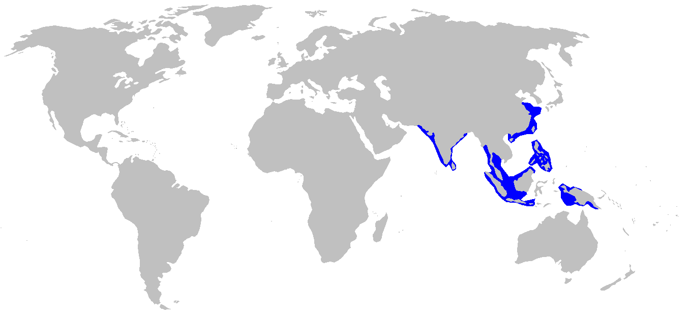 Distribution map for Chiloscyllium griseum